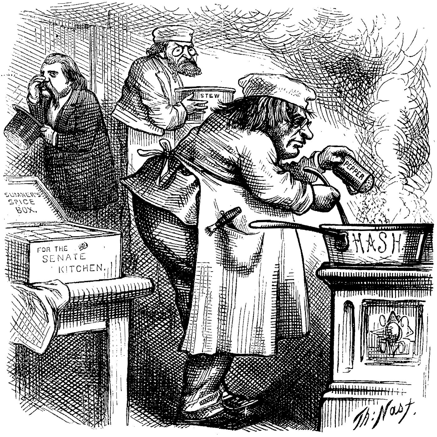 Charles Sumner at the stove warming up some old hash while fellow cook Carl Schurz looks on and John A. Logan looks on and holds his nose.